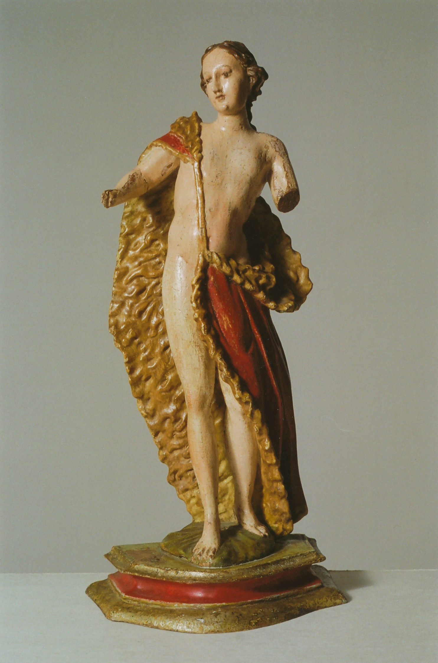 Woodcarved polychrome figure representing Saint John Baptist from Val Gardena, 18th century.